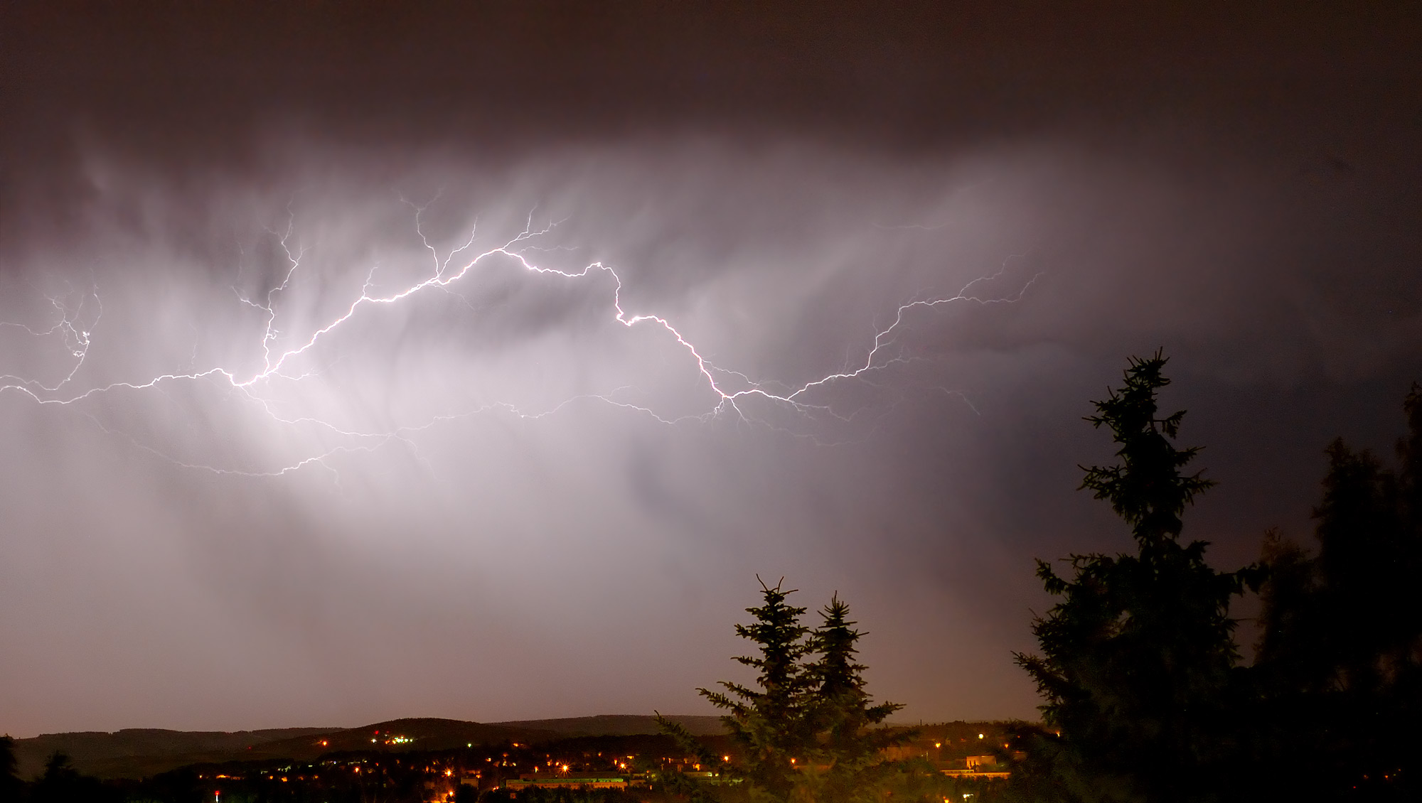 This image shows a cloud to cloud lightning in a very stormy and rainy night in Zwickau, Germany.